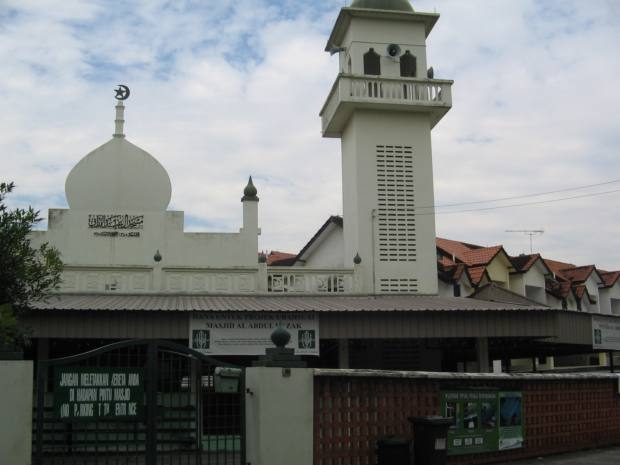 Facade of old mosque. Picture given by MAAR commitee member.